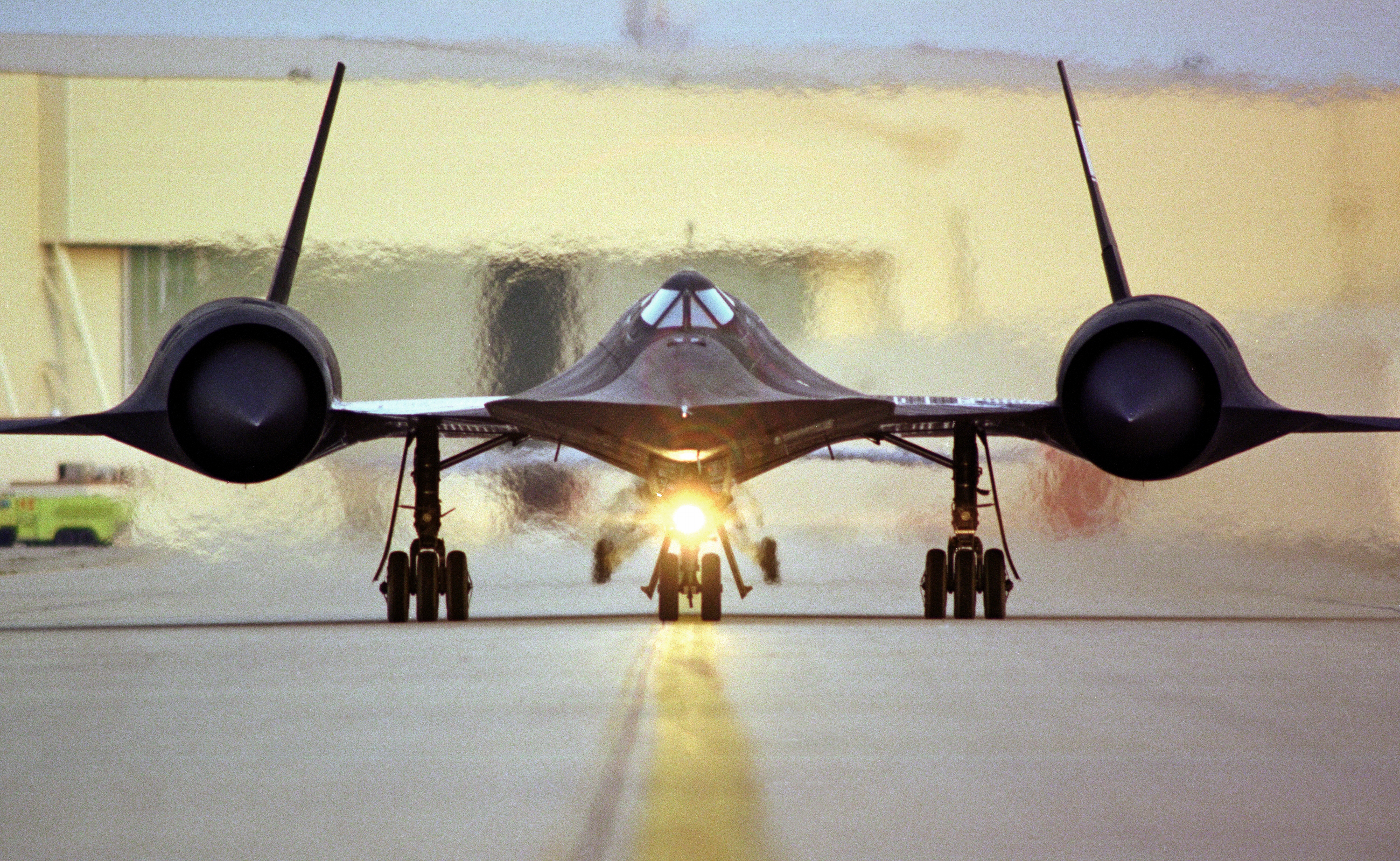 This photo shows a head-on shot of NASA's SR-71A aircraft taxiing on the ramp at NASA's Dryden Flight Research Center, Edwards, California, heat waves from its engines blurring the hangars in the background. ]